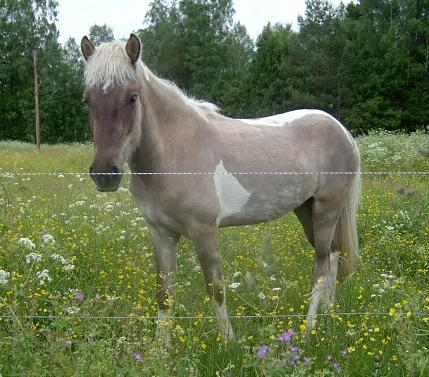 Blue Dun Silver Dapple Pinto. hp photosmart 720